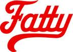 hello